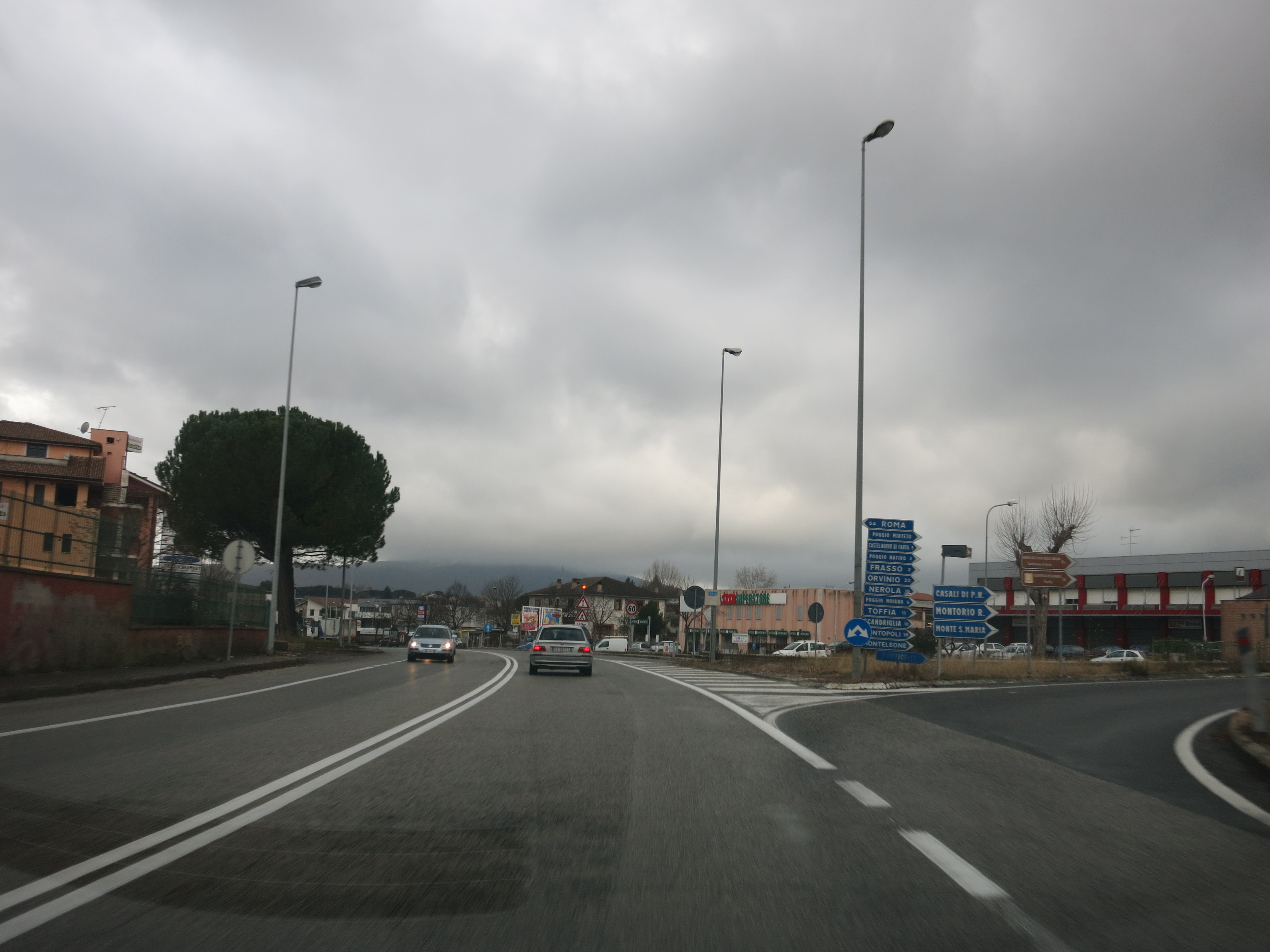 Italian State Road n. 4 Via Salaria, lane heading to Rome